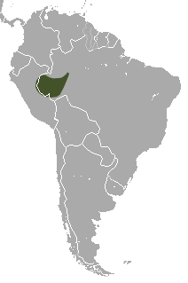 Mcilhenny's Four-eyed Opossum (Philander mcilhennyi) range